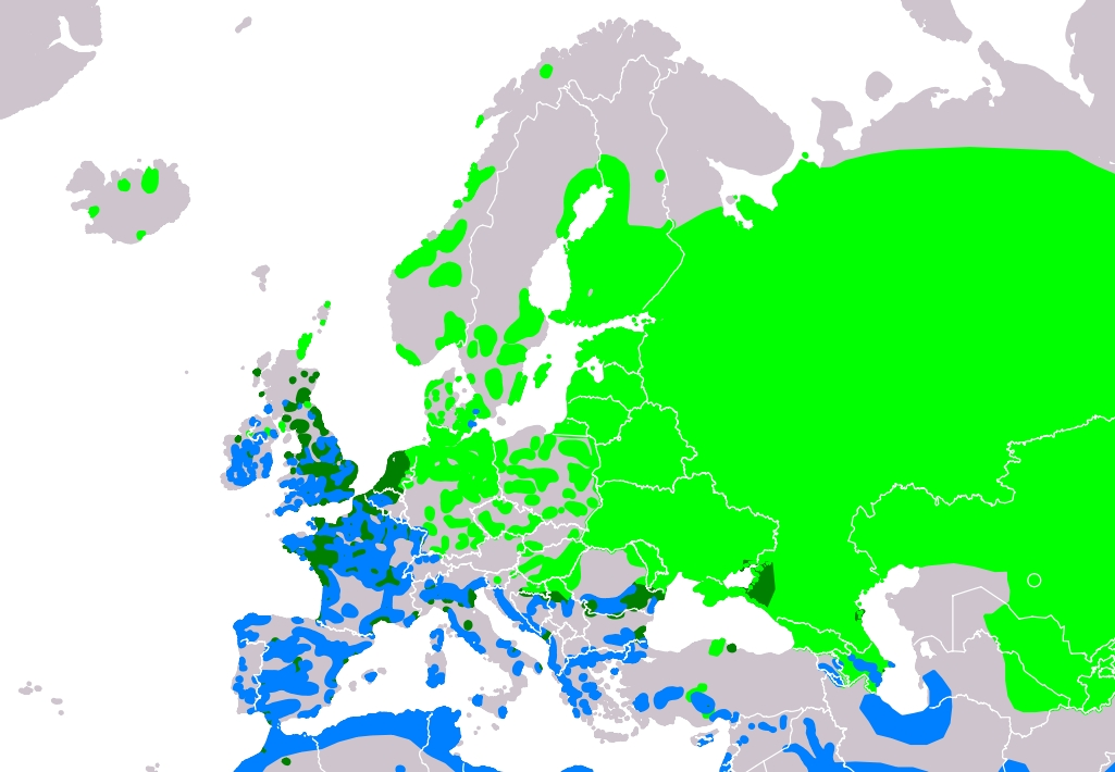 Distribution map of northern shoveler (Spatula clypeata) according to IUCN version 2019-2 in Europa ; key: Legend: Extant, breeding (#00FF00), Extant, resident (#008000), Extant, non-breeding (#007FFF)